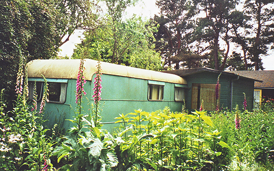 English